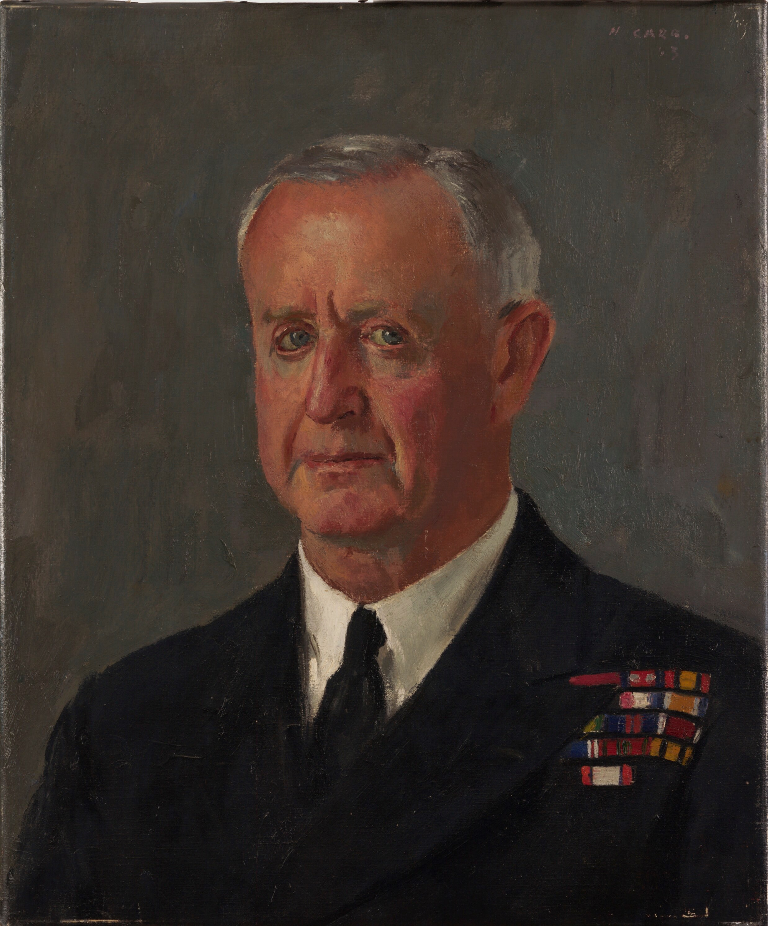 Admiral of the Fleet Sir Andrew Cunningham : Bt GCB, DSO